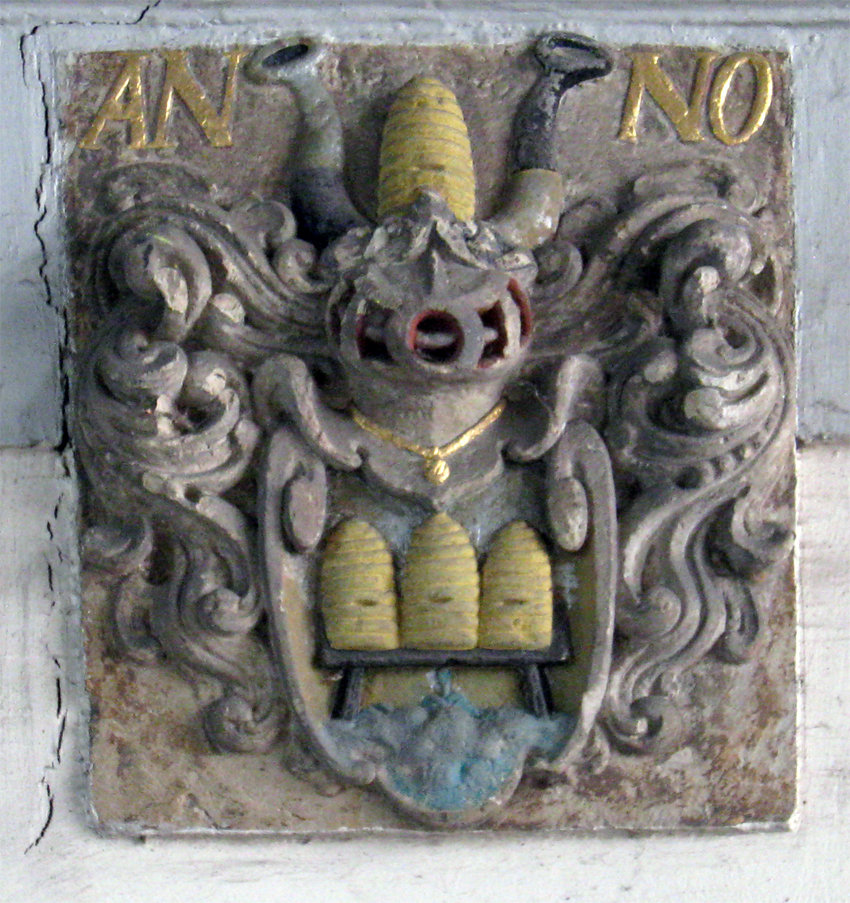 Coat of arms of Hermann (also Harmen) Wachmann (1579–1658) mayor of Bremen, Germany, and principal of the St.-Rembert-Stift around 1650.